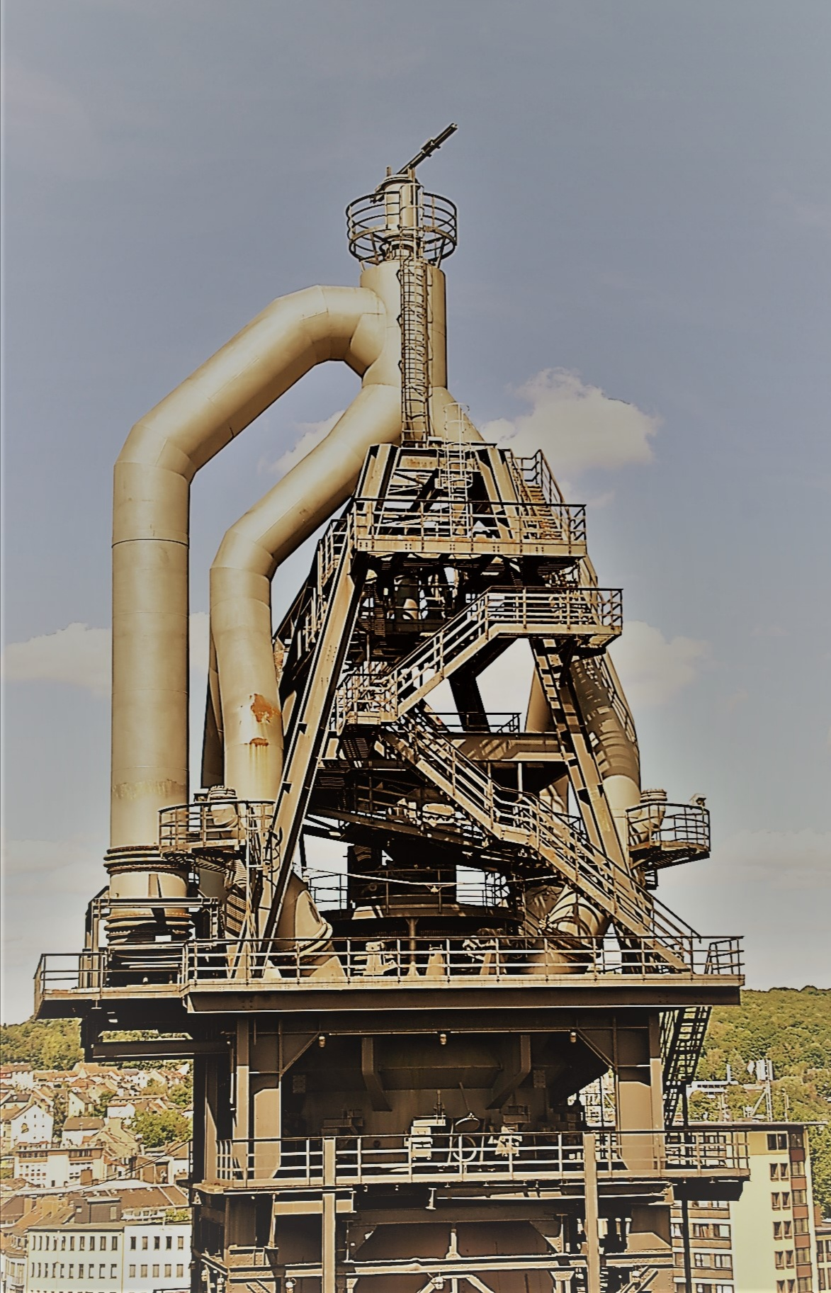 Blast furnace at Neunkircher Eisenwerk, Neunkirchen (Saar)